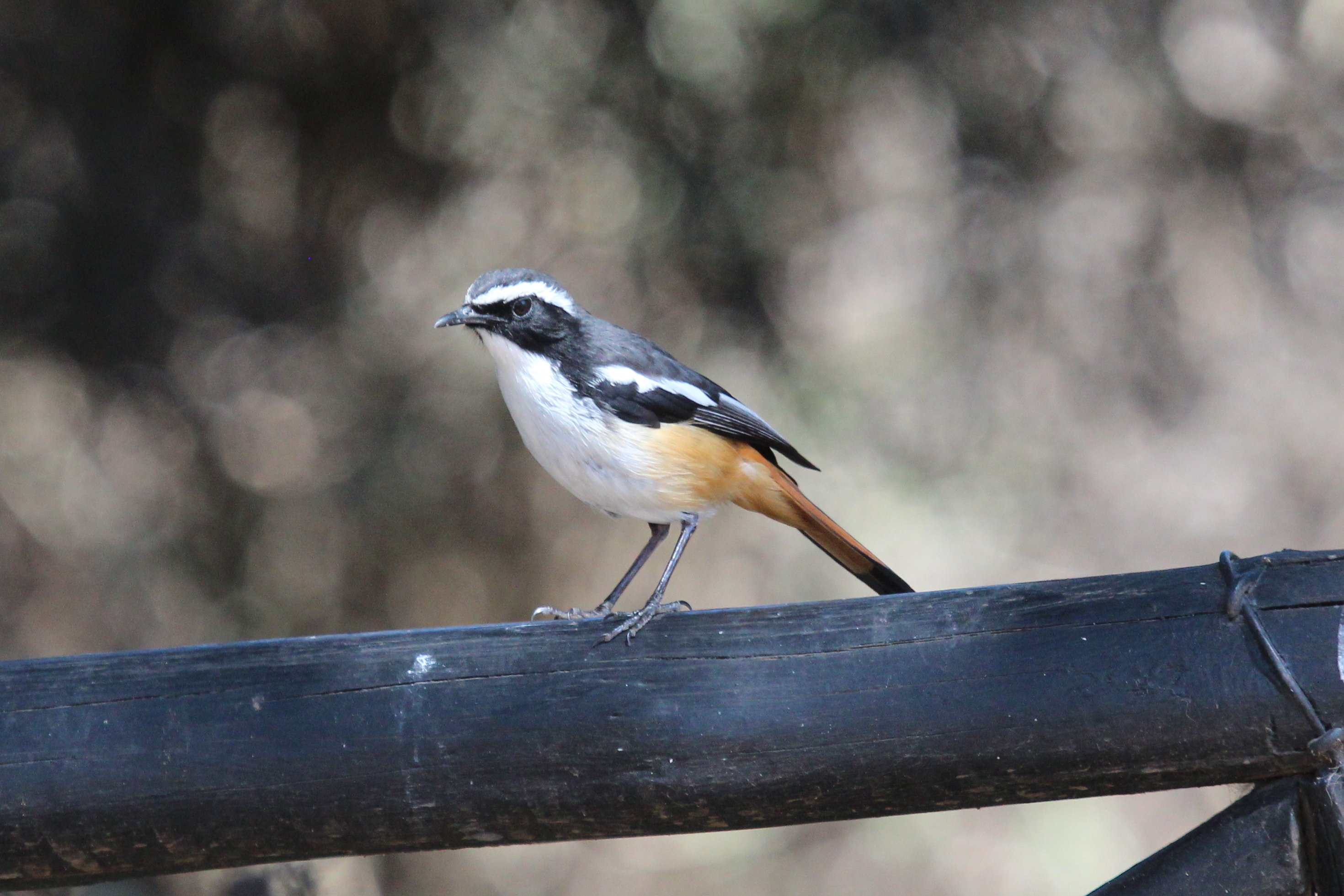 A White-throated Robin-Chat in KwaZulu-Natal, South Africa.